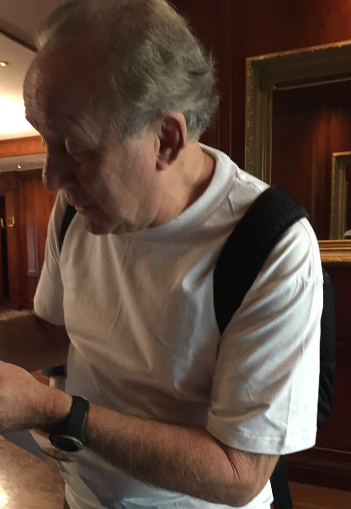 Michael Reagan in Ecuador in June 2016